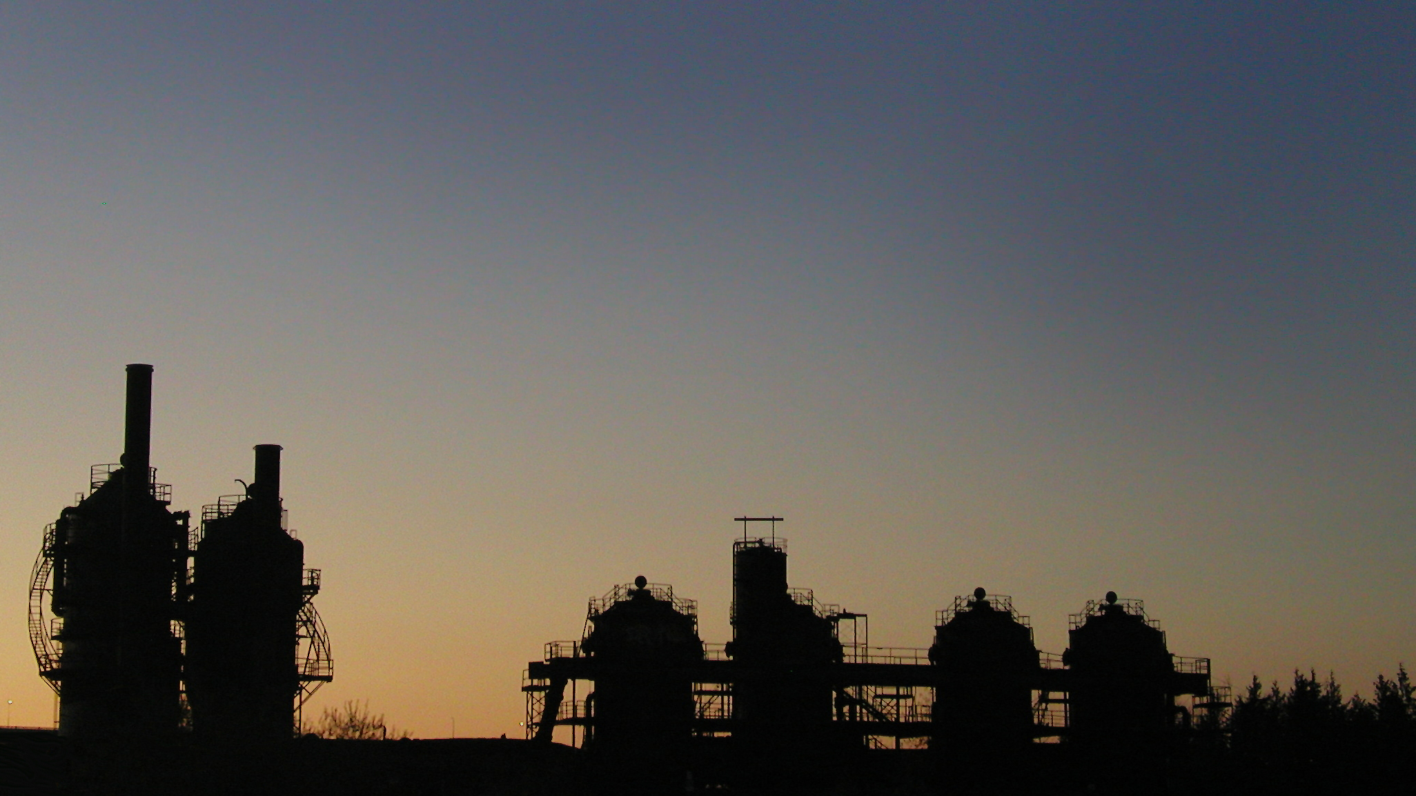 A silhouette of Gasworks Park in Seattle.